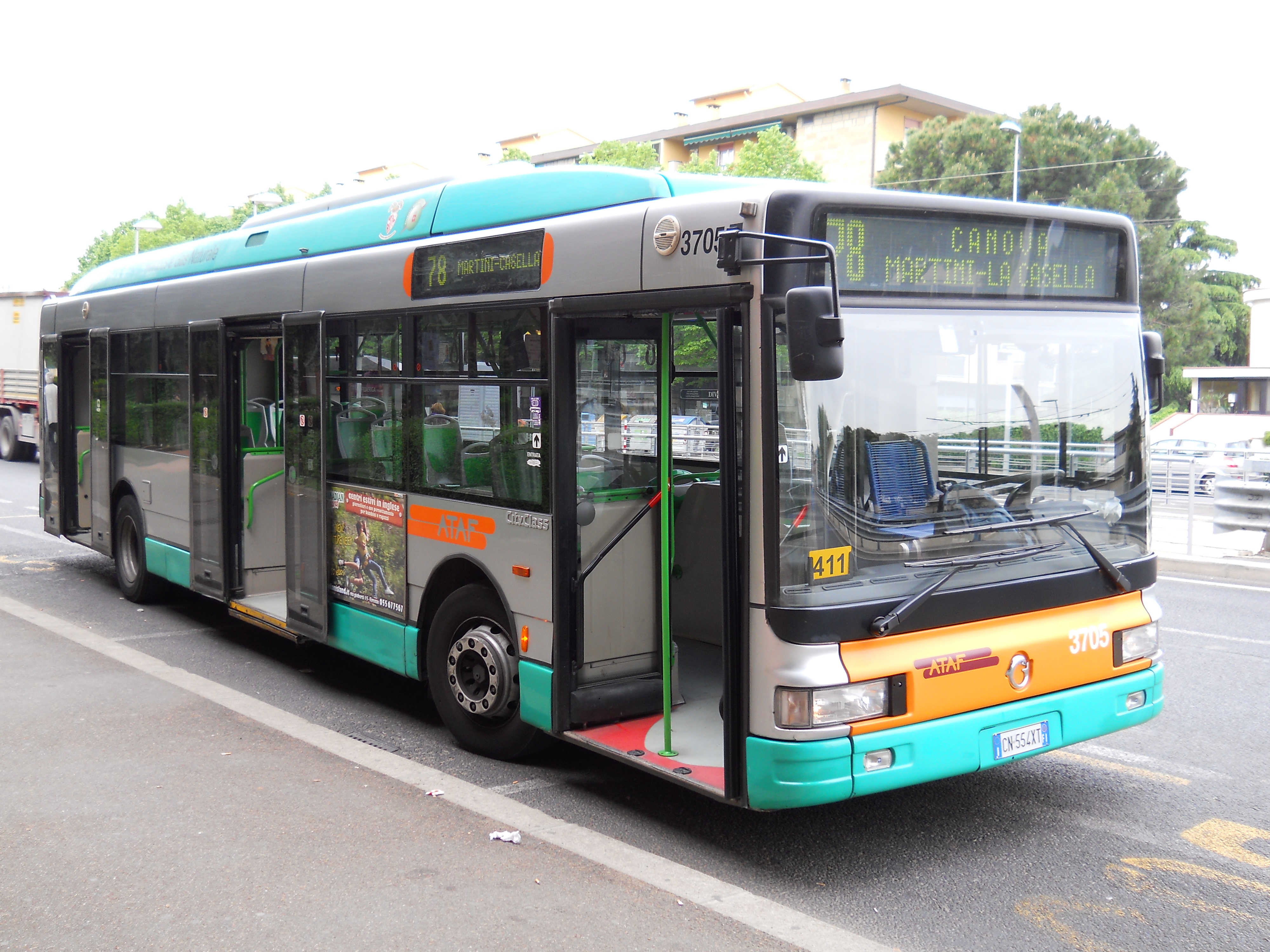 An ATAF Irisbus Cityclass 491.12.24 CNG serving on line 78 in Florence.